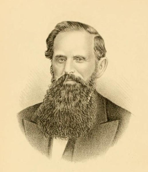 Portrait of New York state assemblyman Chauncey S. Sage (1816-1890)